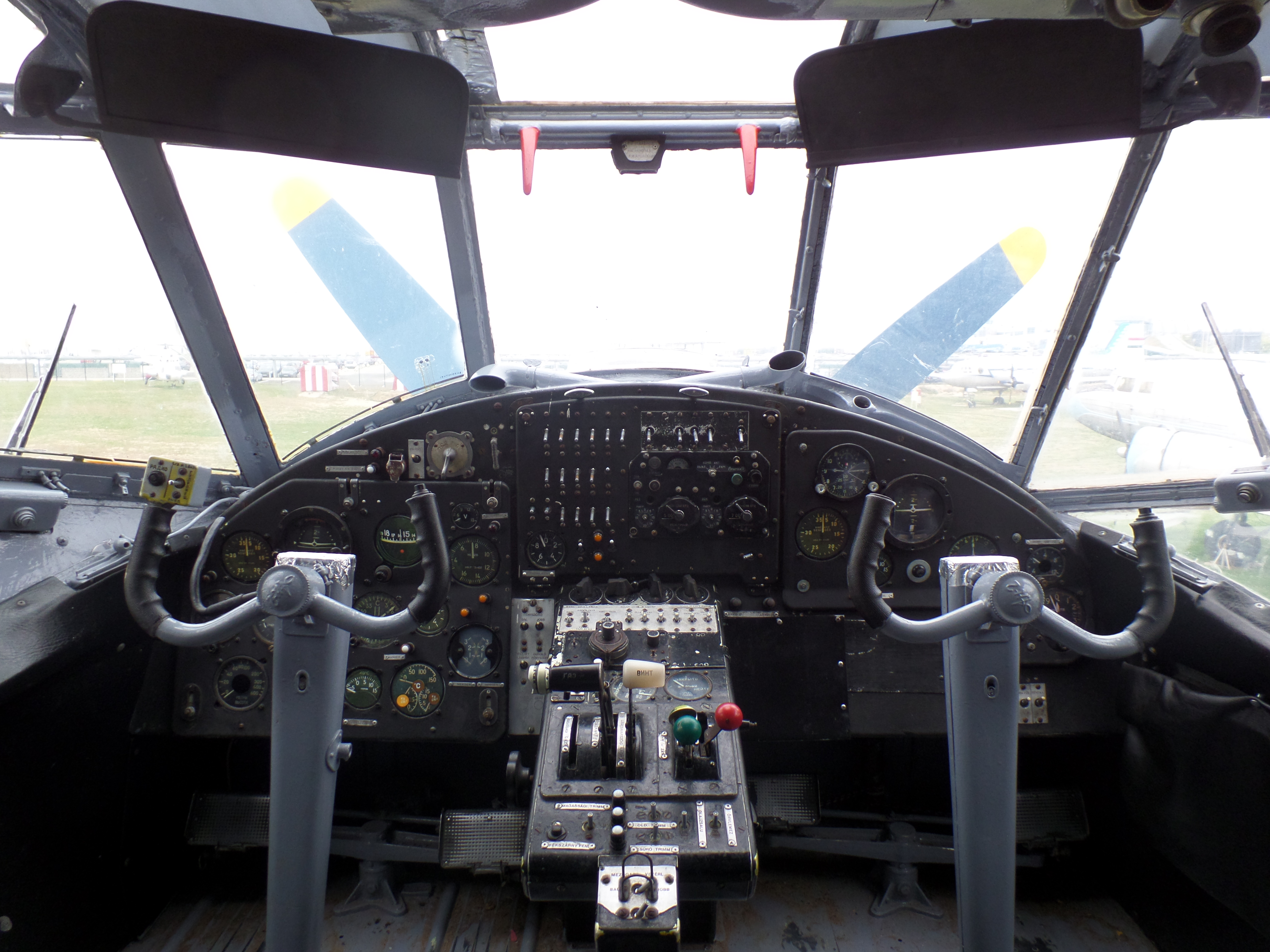 Cockpit of Aero Club Malév Antonov An-2R HA-YHF at Aeropark Hungary on 20 October, 2016.